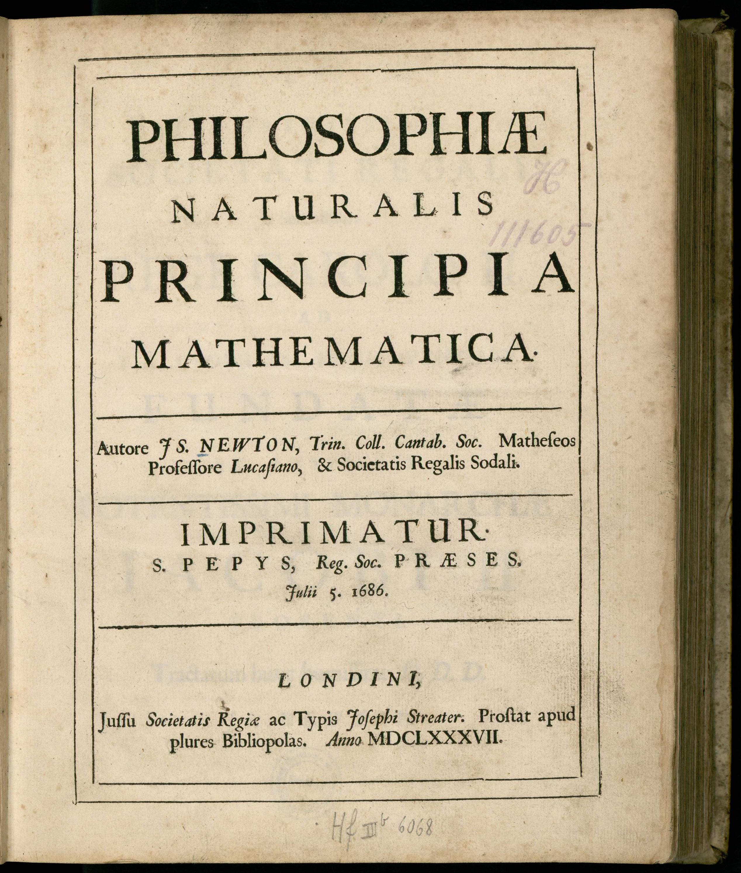 Isaac Newton's first edition of his Philosophiae Naturalis Principia Mathematica